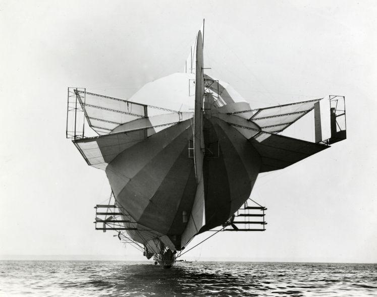 The German airship LZ 4 seen from behind. The Zeppelin is hanging above the sea and equipped with an impressive number of stabilizers. 1908. Hebt u meer informatie over deze foto, laat het ons weten. Laat een reactie achter (als u ingelogd bent bij Flickr) of stuur een mailtje naar: Please help us gain more knowledge on the content of our collection by simply adding a comment with information. If you do not wish to log in, you can write an e-mail to: Meer foto’s van Spaarnestad Photo zijn te vinden op onze beeldbank